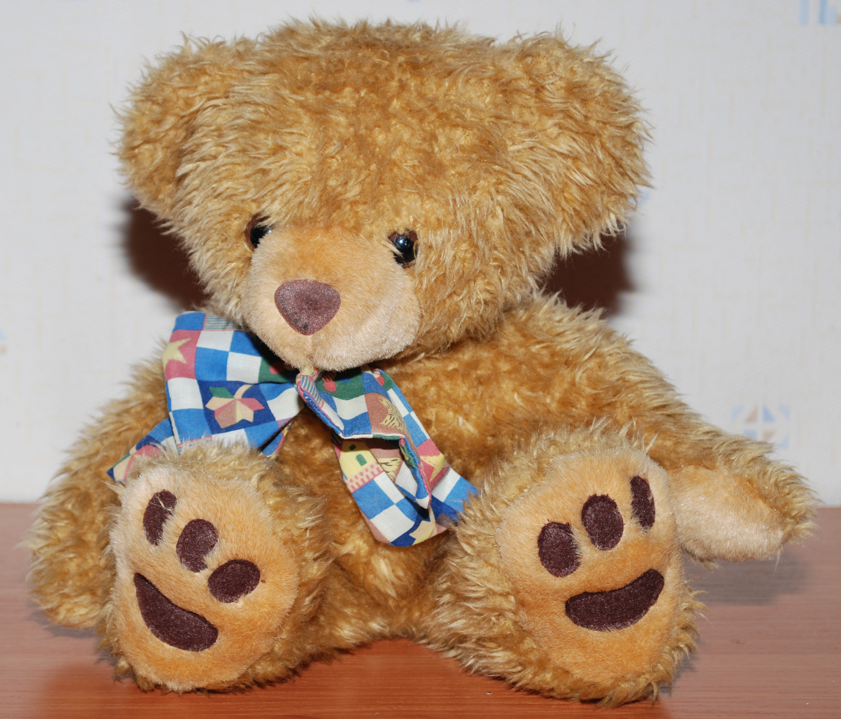 Experiments with direction of flesh light. Flesh pointed directly to front of the teddy bear.